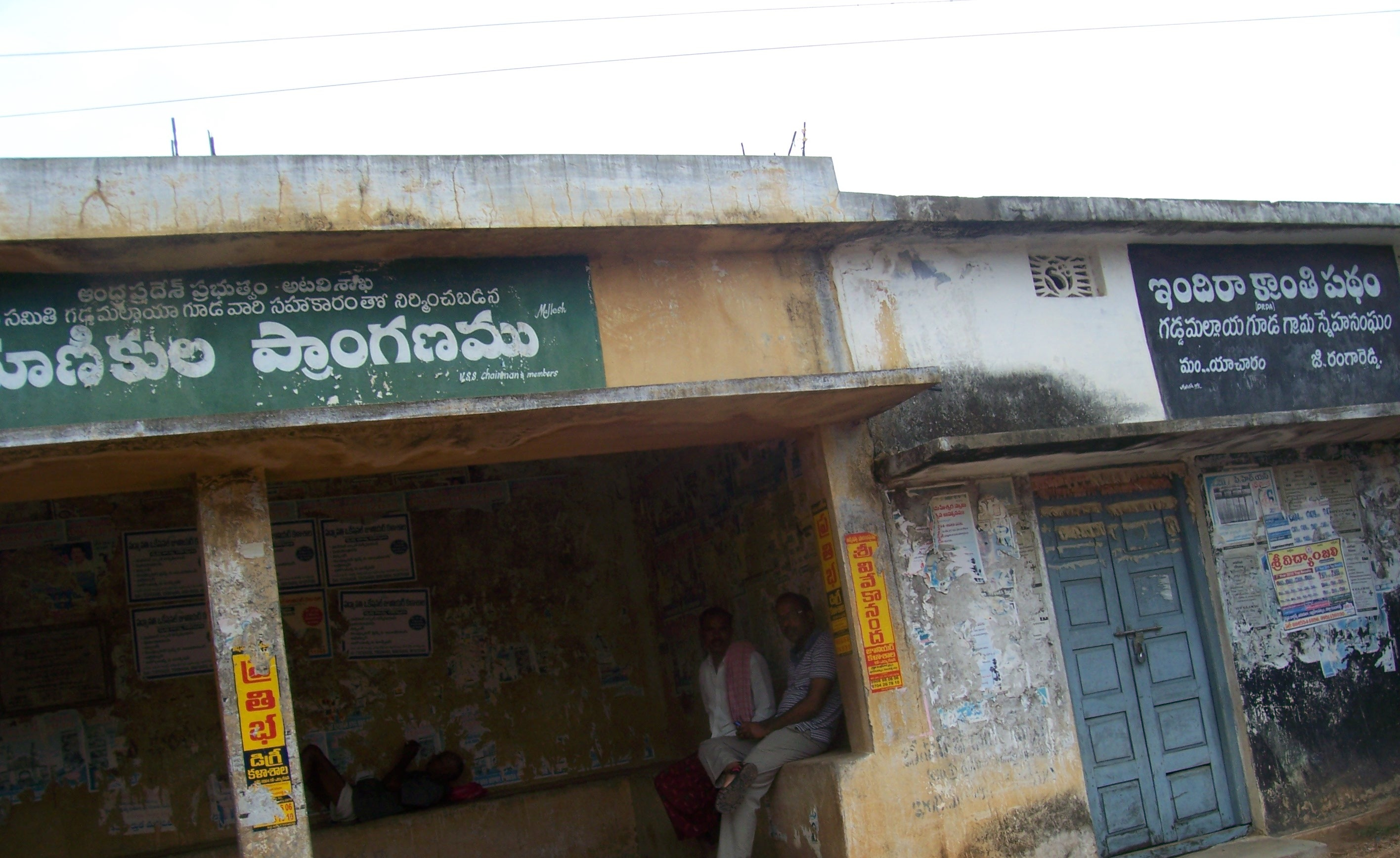 bus shelter